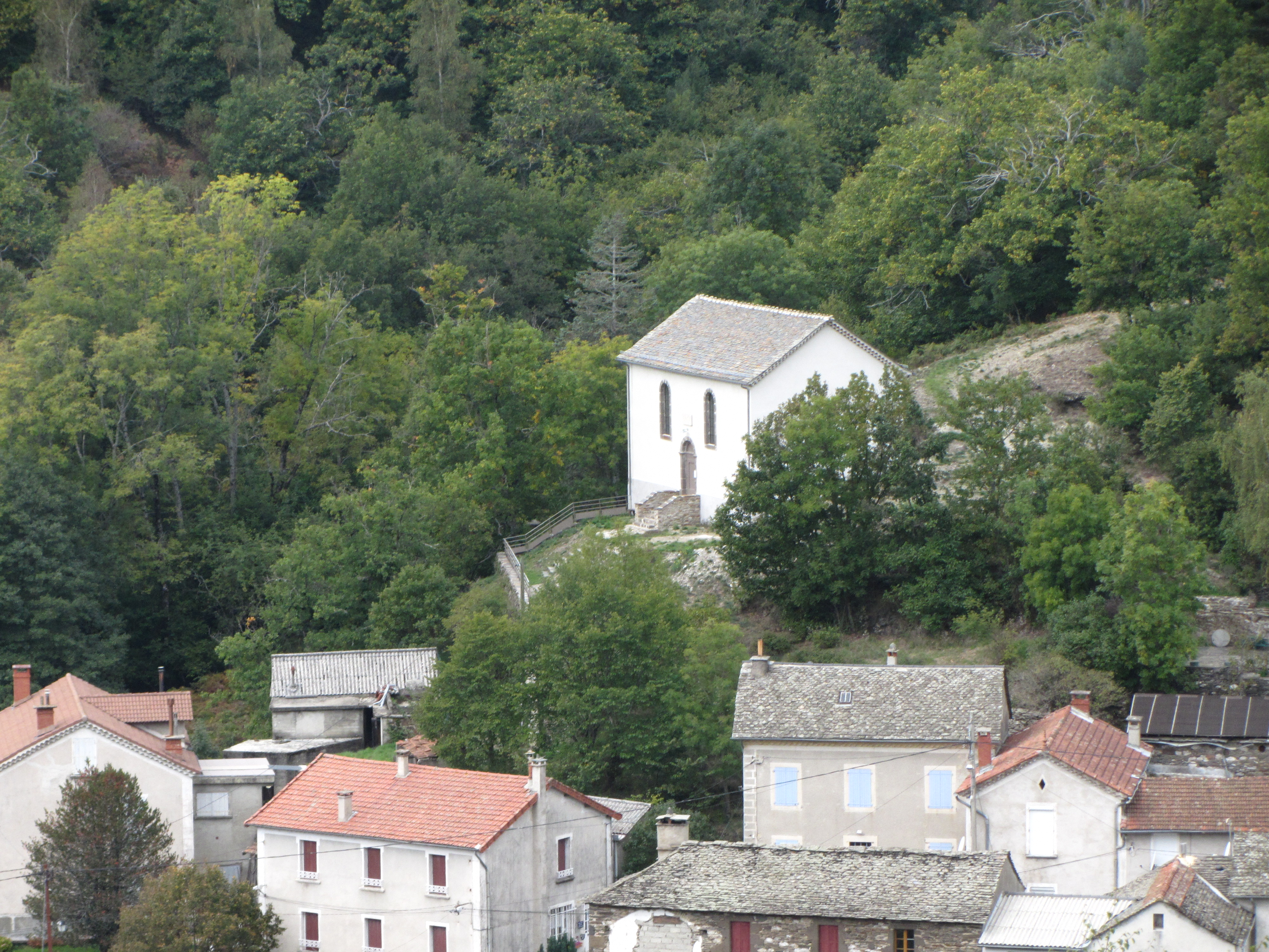 The old temple of Le Rouve Bas (Saint-André-de-Lancize, Lozère, France) is now a memorial devoted to the Camisard revolt in Bougès mountains (Cevennes)[2]